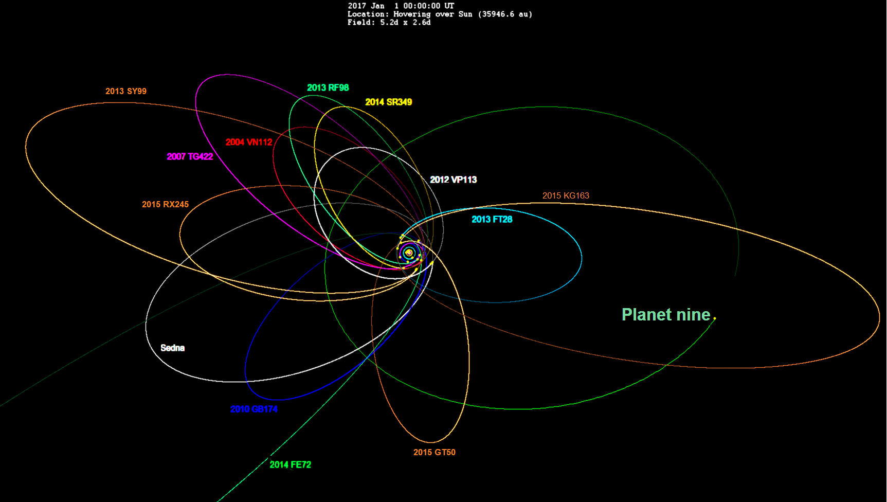 Extreme trans-Neptunian objects, 9 objects plus 4 new ones in orange